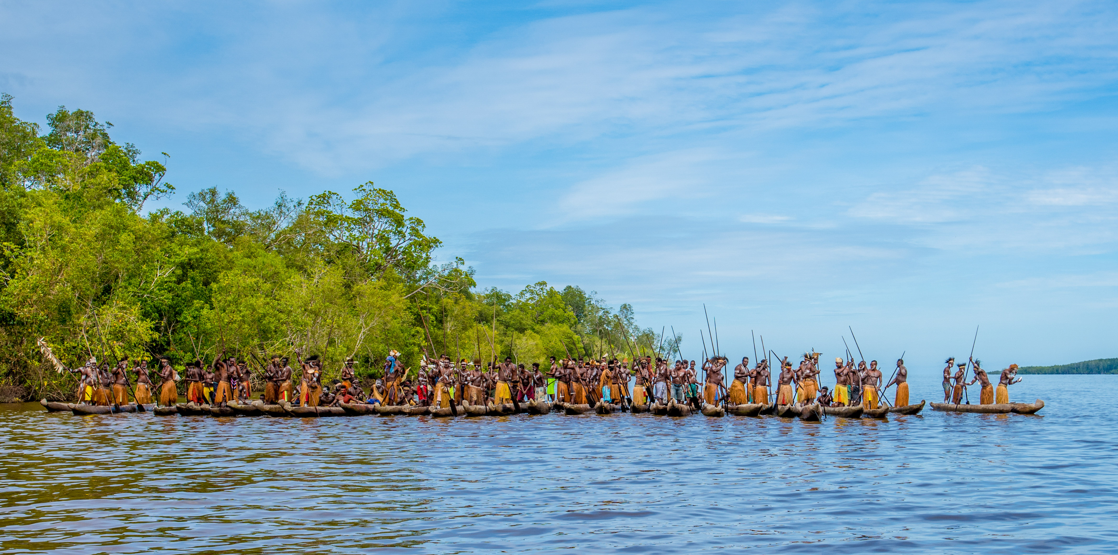 West Papuan warriors